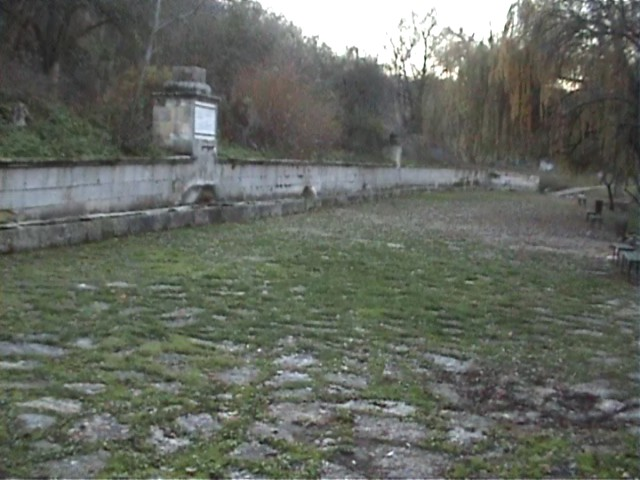 The place where the Treaty of Küçük Kaynarca was signed.